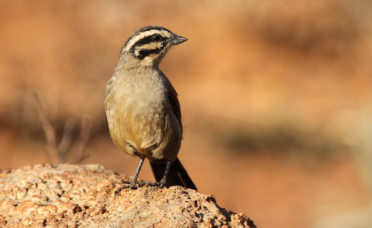 Cape Bunting, Emberiza capensis at Suikerbosrand Nature Reserve, Gauteng, South Africa